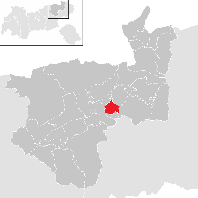 District Kufstein